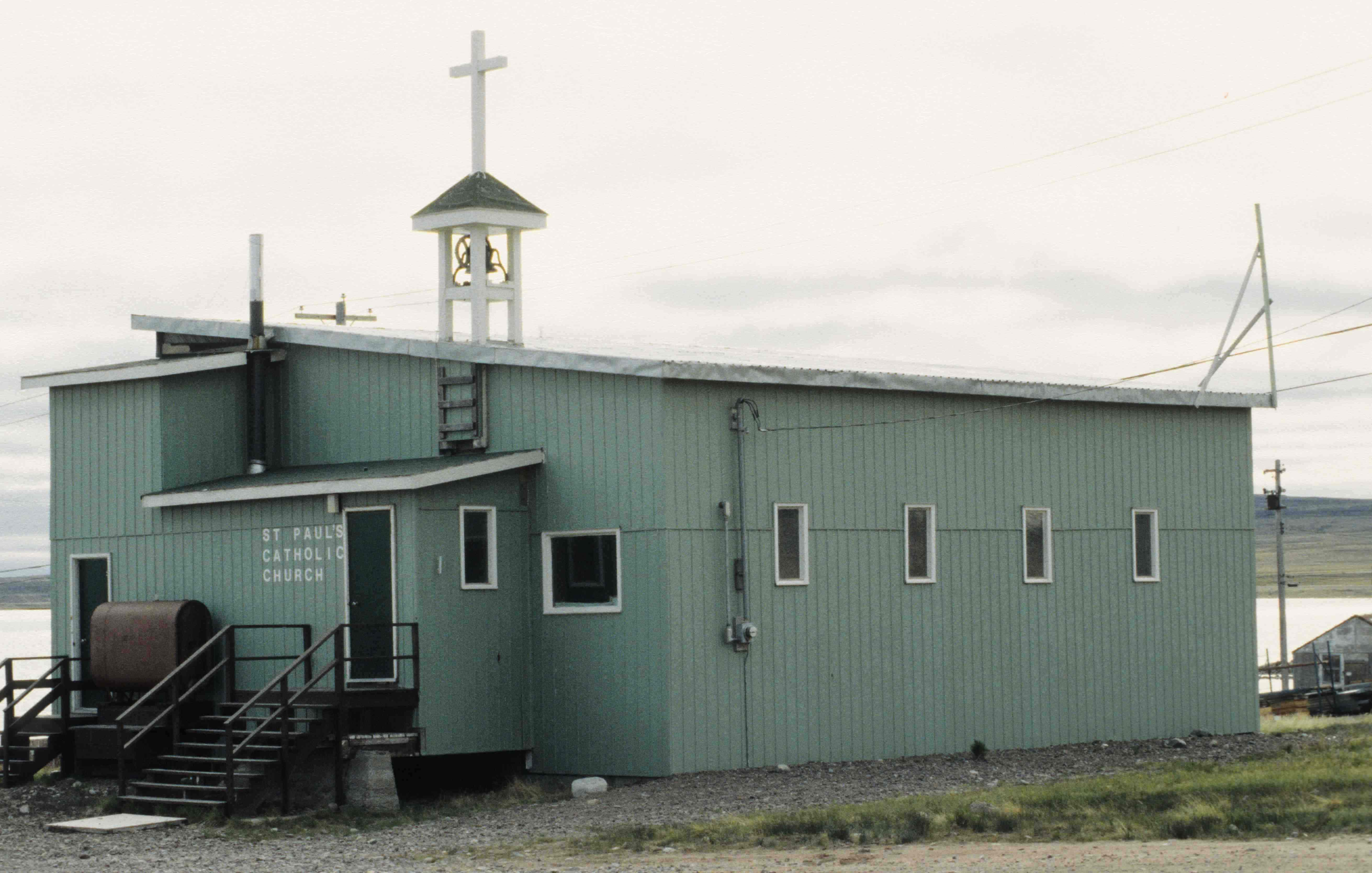 Roman Catholic Church St. Paul in Baker Lake, Nunavut, Canada